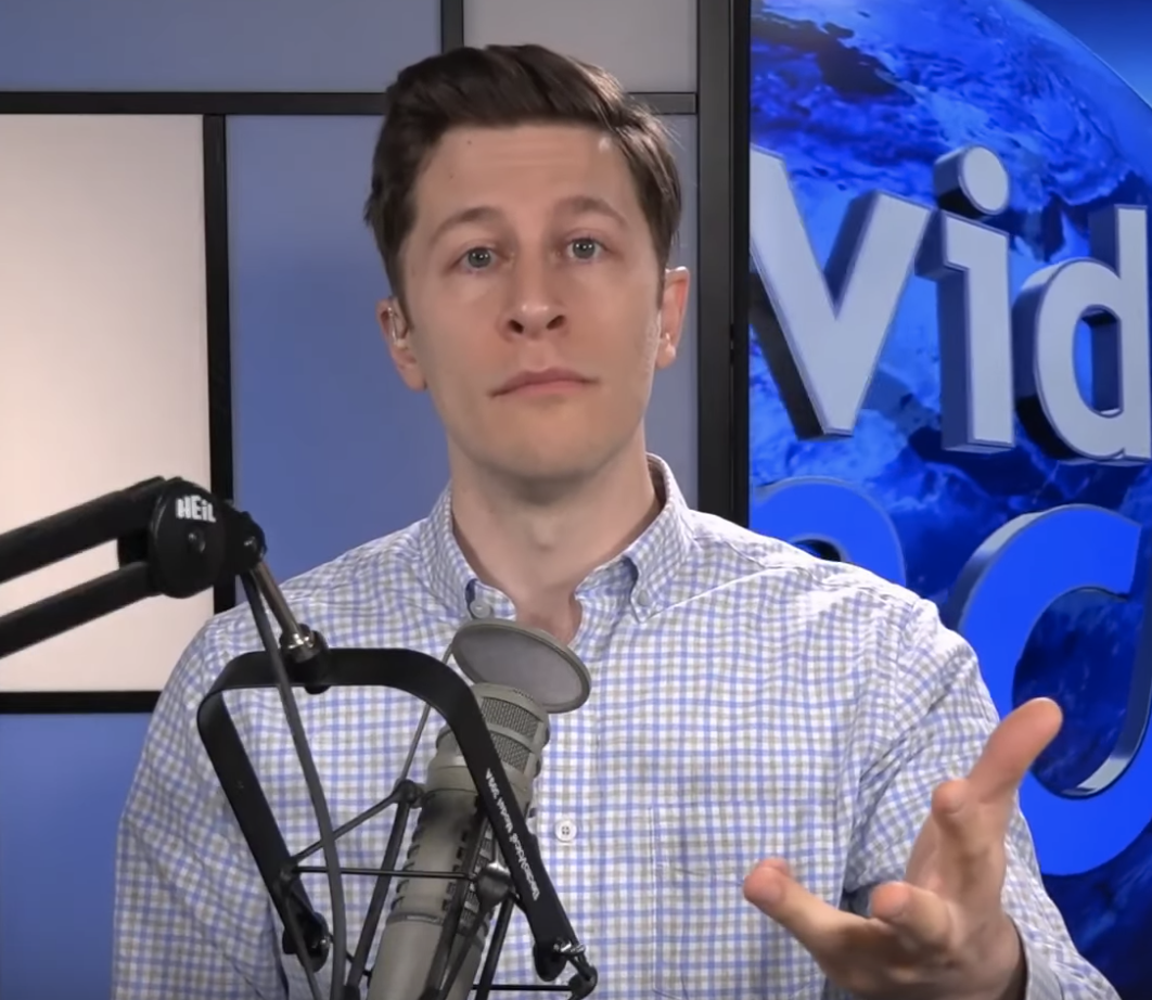 David Pakman interviewed on the show Rebel Wisdom in 2019